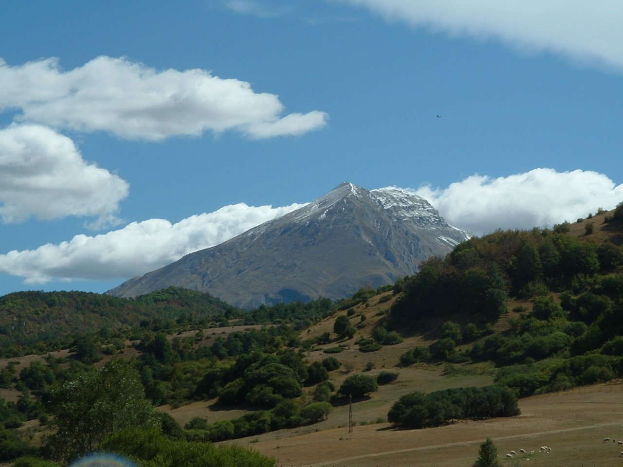 Gran Sasso from the North